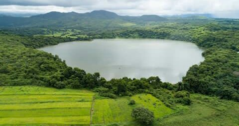 Is a reserve place .